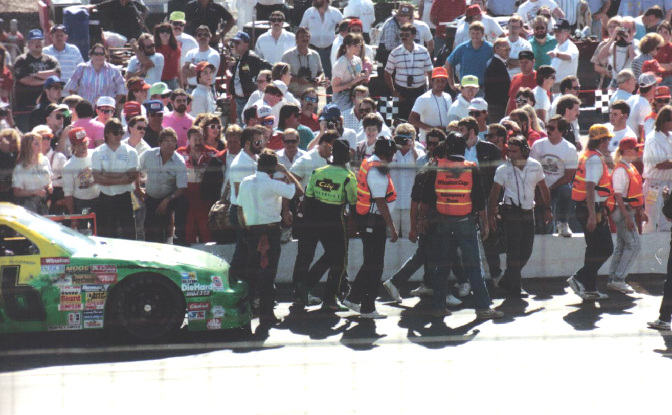 Tom Cruise was at the track this weekend filming scenes for the movie "Days of Thunder". He can be seen at the center of the photo in the green and black firesuit.